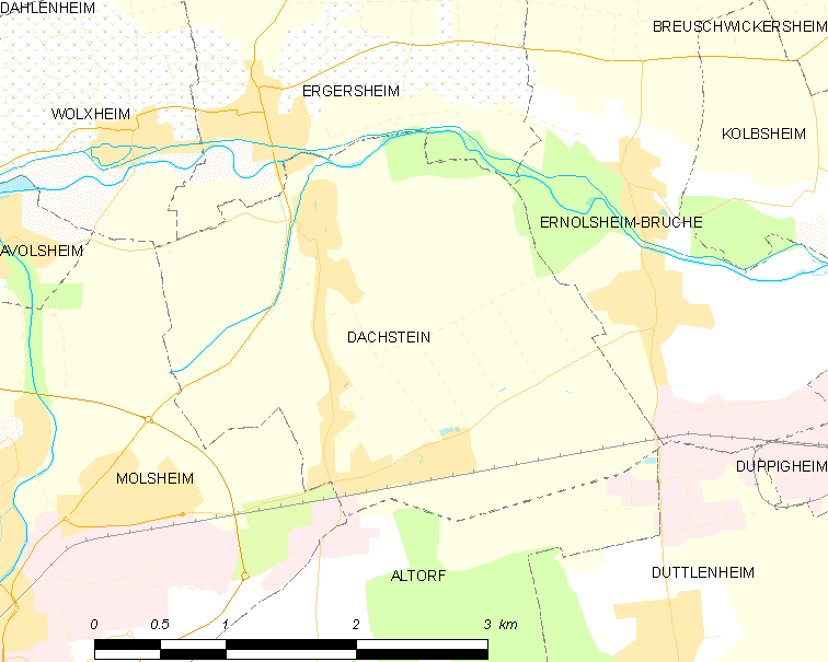 Map of French municipality